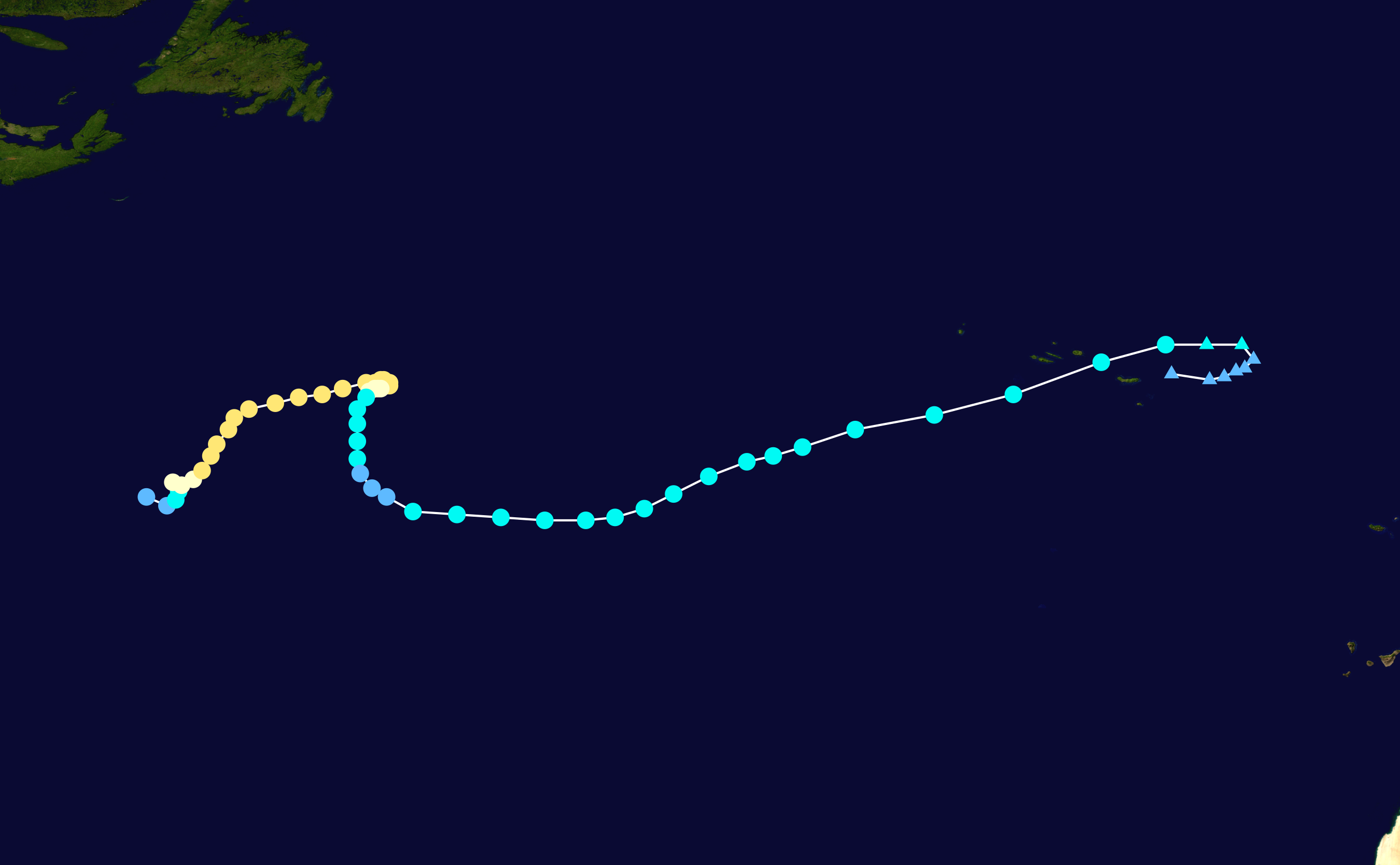 Track map of Hurricane Bonnie of the 1992 Atlantic hurricane season. The points show the location of the storm at 6-hour intervals. The colour represents the storm's maximum sustained wind speeds as classified in the Saffir–Simpson scale (see below), and the shape of the data points represent the nature of the storm, according to the legend below. Saffir–Simpson scale Tropical depression≤38 mph≤62 km/h Category 3111–129 mph178–208 km/h Tropical storm39–73 mph63–118 km/h Category 4130–156 mph209–251 km/h Category 174–95 mph119–153 km/h Category 5≥157 mph≥252 km/h Category 296–110 mph154–177 km/h Unknown Storm type Tropical cyclone Subtropical cyclone Extratropical cyclone / Remnant low / Tropical disturbance / Monsoon depression